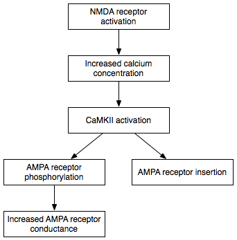 Proposed mechanism of the early phase of long-term potentiation, adapted from Lynch, 2004 (PMID 14715912).